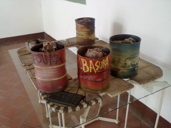 Collection of the Museum of Ceramics of Cuba